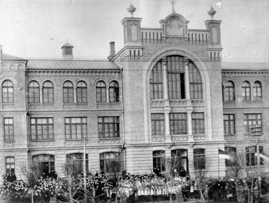 Commercial school in Berdychiv